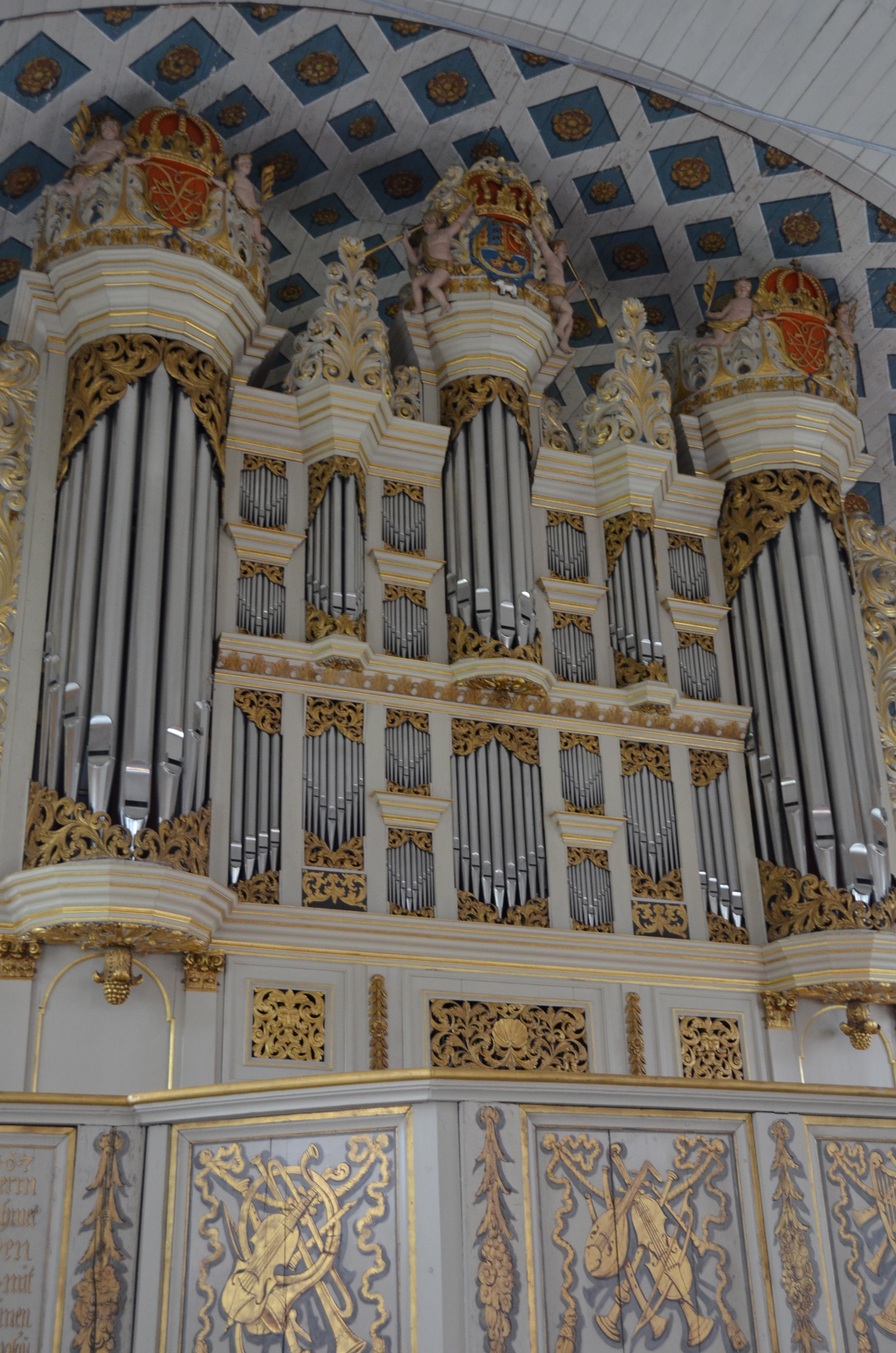 Organ in Rendsburg